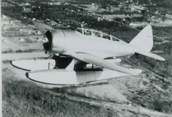 Seversky 2PA-A